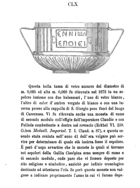 Iscrizioni antiche vercellesi bruzza luigi